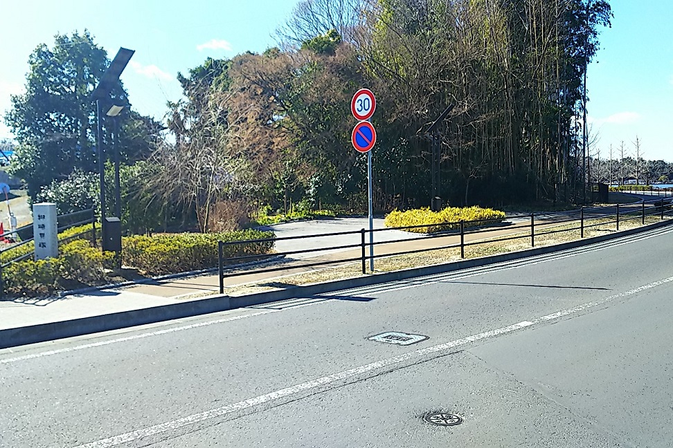 Lake Senba in Mito , Ibaraki. Yanagizaki Shell mound.